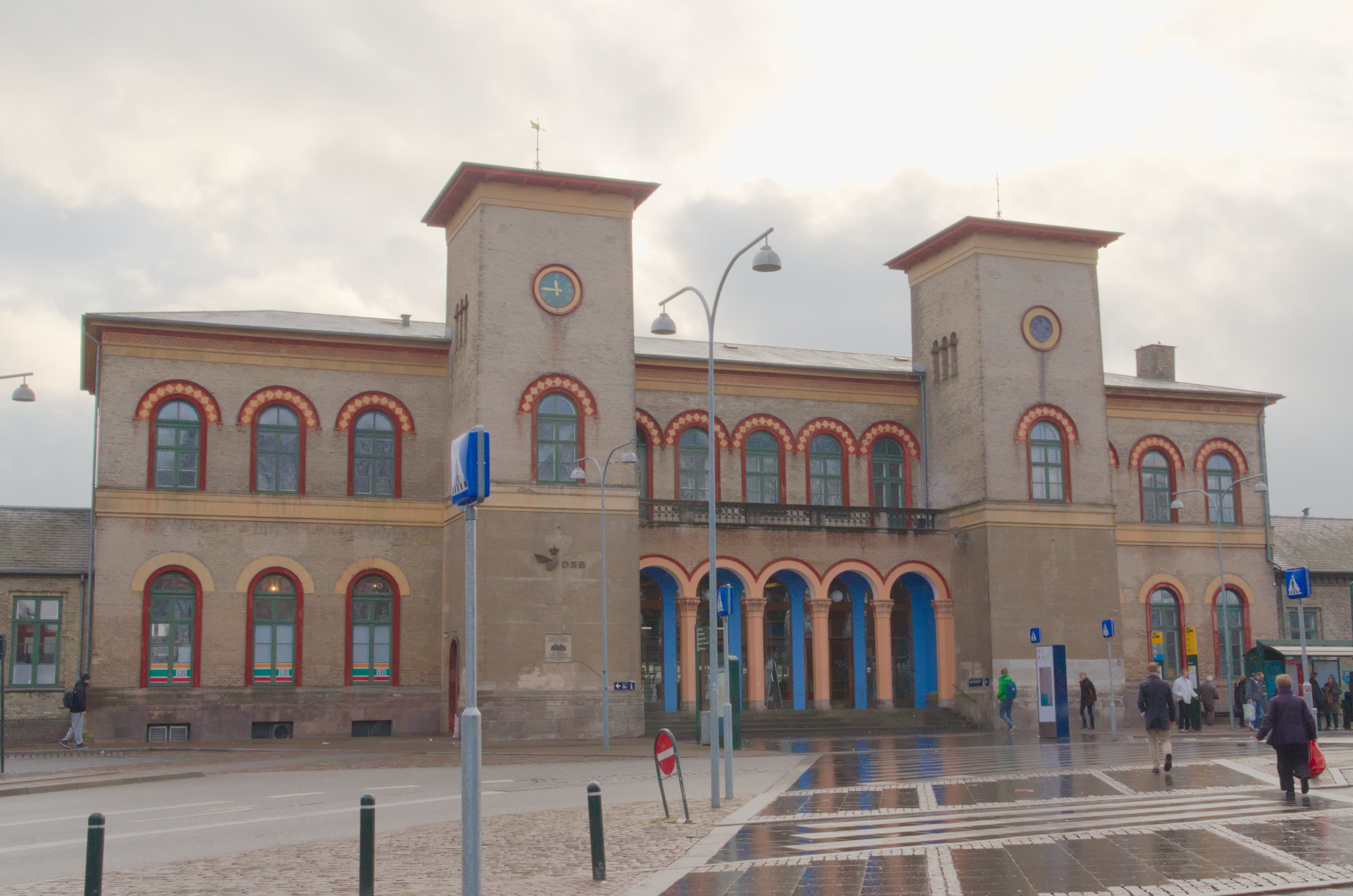 Roskilde railway station in december 2014, the oldest one in Danemark.